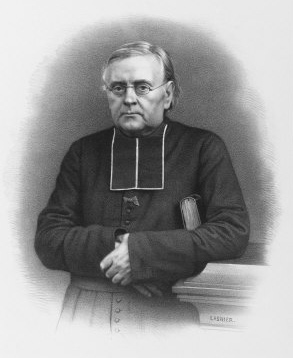 The portrait of French engineer François-Napoléon-Marie Moigno (1804–1884)